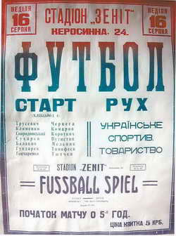 football match: Start-Rukh. 16 august 1942. Kiev.